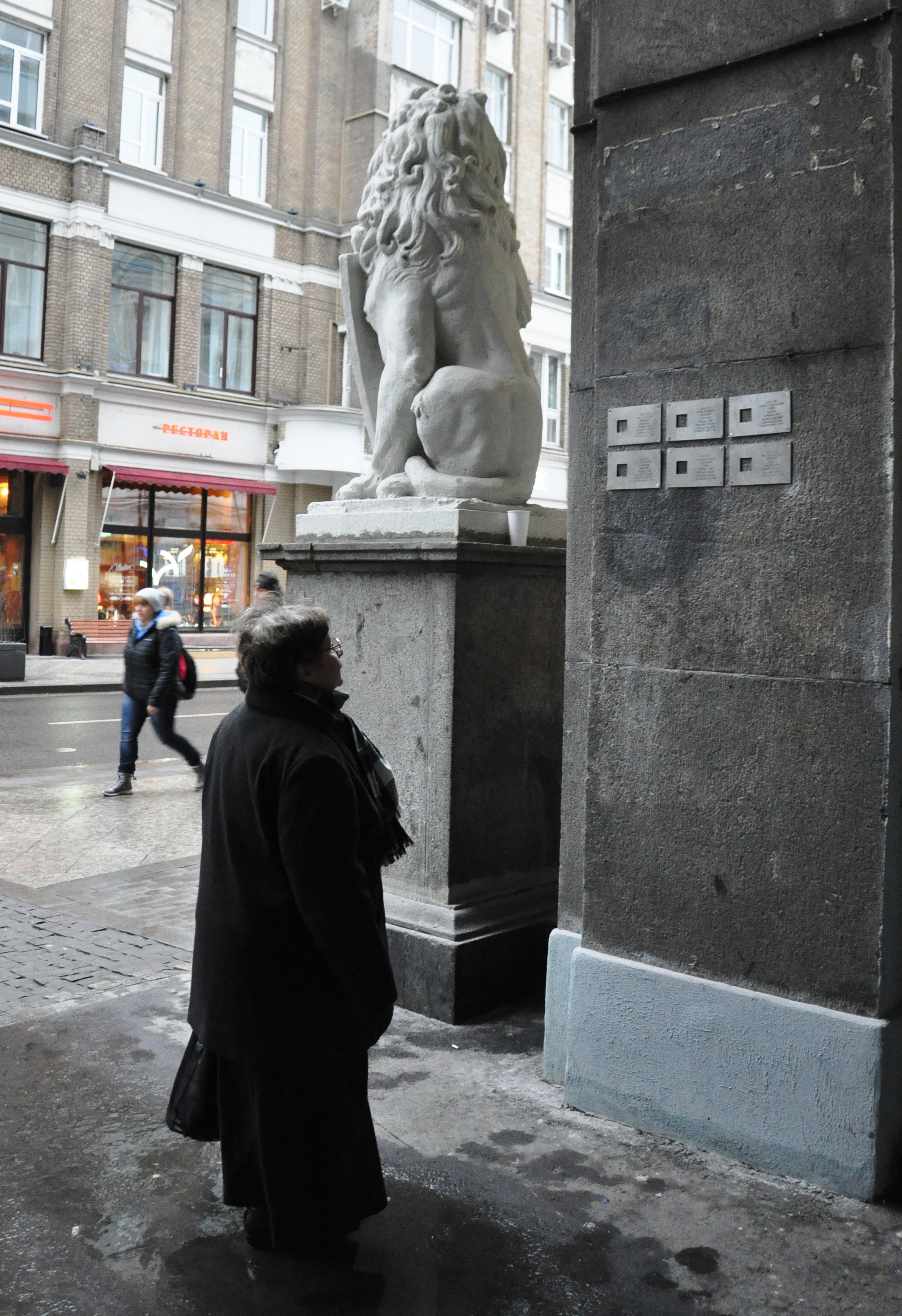 The Last Address Sign is a commemorative plaque that is installed on the last known residential address of victims of the Soviet Union's Communist regime. The memorial sign is a small, 11x19 cm stainless steel plaque that contains information about the repressed person. This information usually contains his or her name, profession, date of birth, date of arrest, date of death, and date of exoneration.